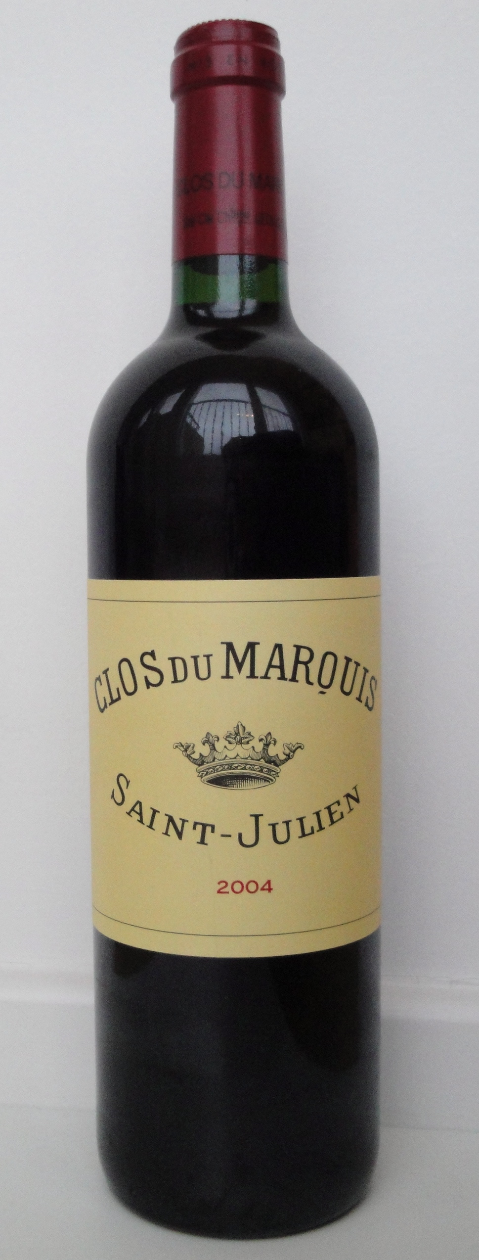 2004 Clos du Marquis, second wine of Léoville-Las Cases, a wine from Saint-Julien in Bordeaux.